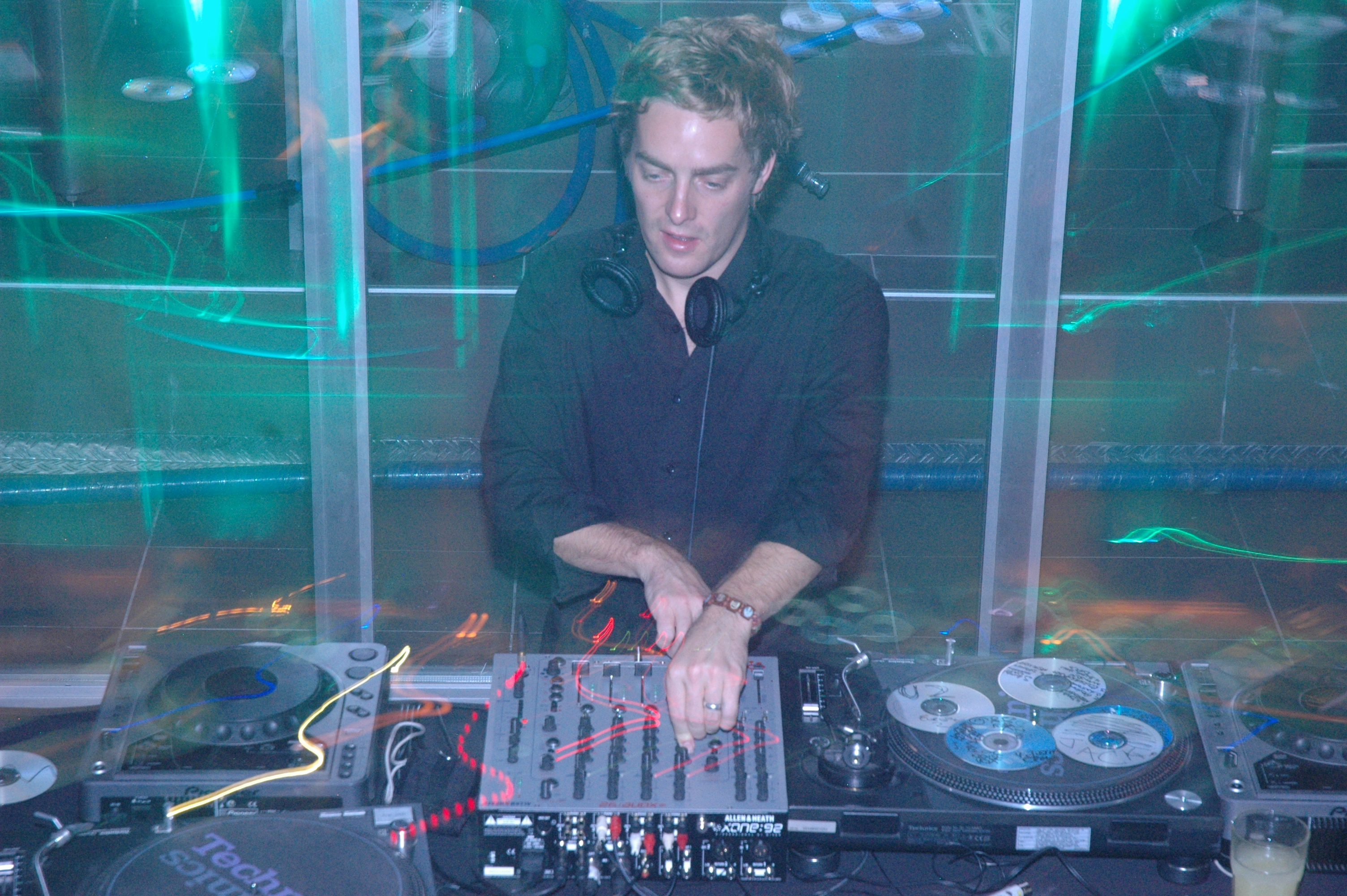 Adam Freeland performing at Balans in Istanbul, Turkey